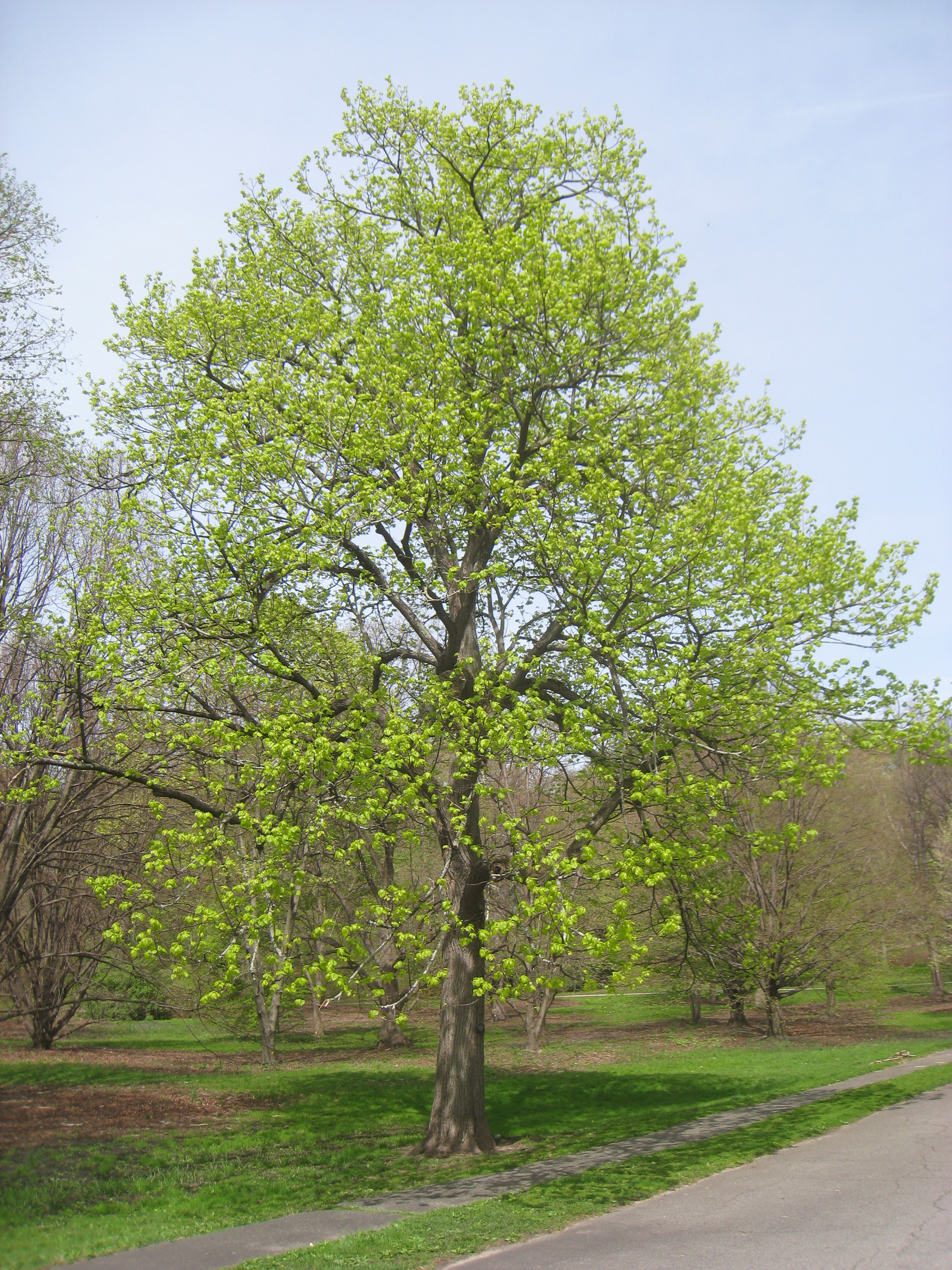 Tilia americana, Arnold Arboretum, Jamaica Plain, Boston, Massachusetts, USA.